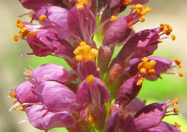 Amorpha fruticosa flowers. Note that unlike most other plants of the bean/legume family this one's flowers only have one petal. Usually a bean flower has a large "standard", two "wings" and two "keel" petals. Here, only the large standard petal is developed.